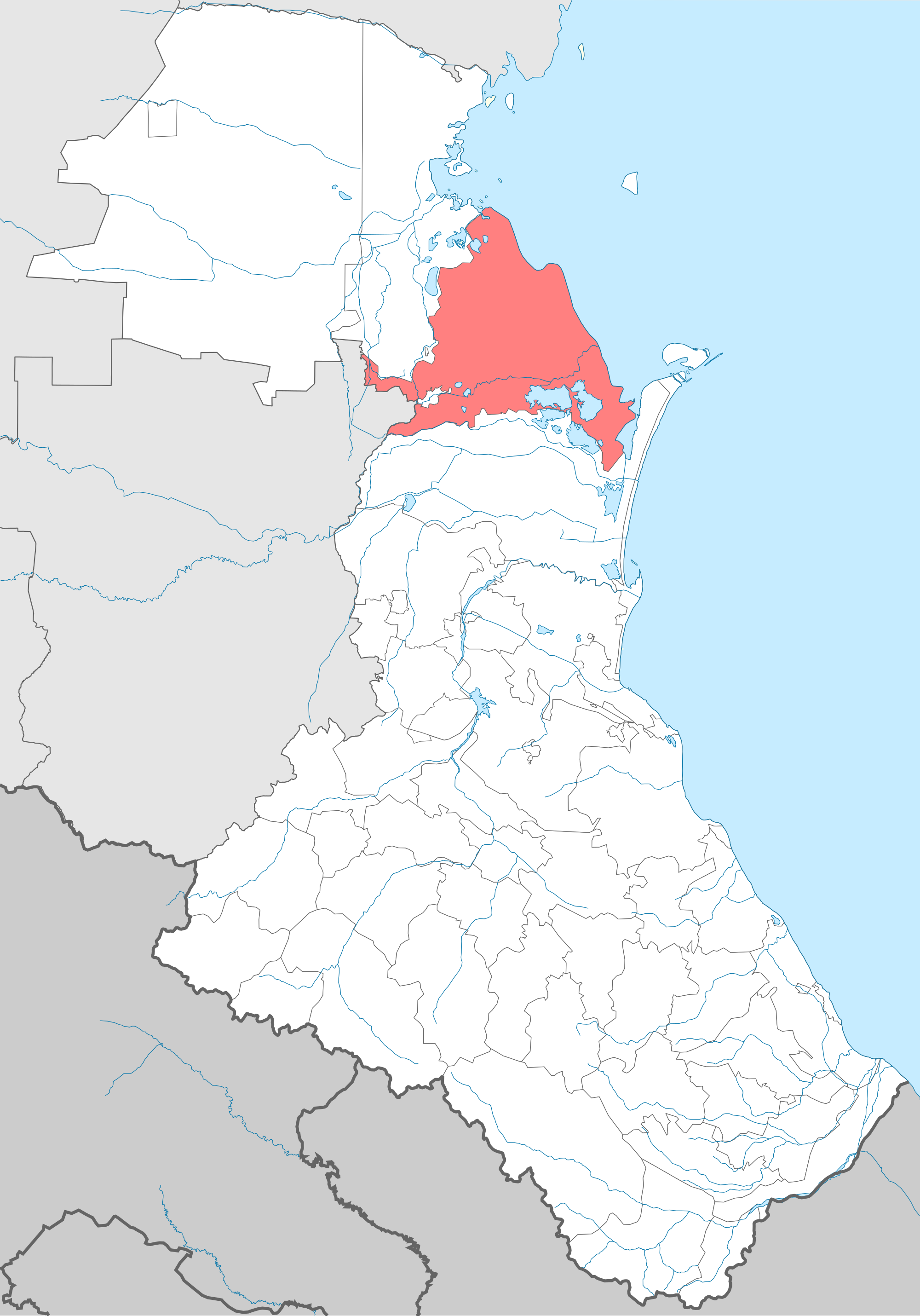 Kizlyarsky district. Locator Map of Dagestan (Russia)